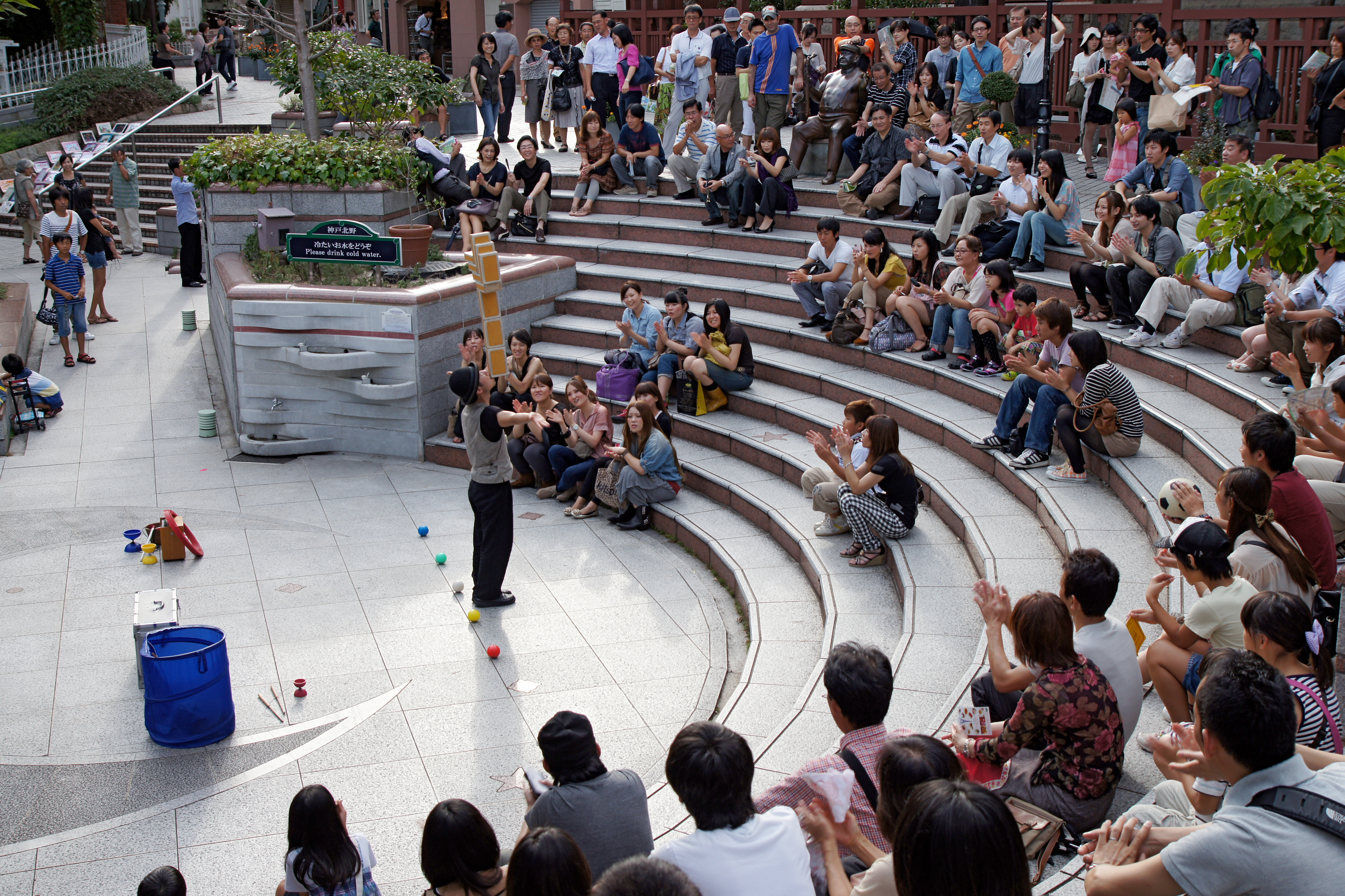 at Kitano-cho Plaza in Kobe, Hyogo prefecture, Japan.